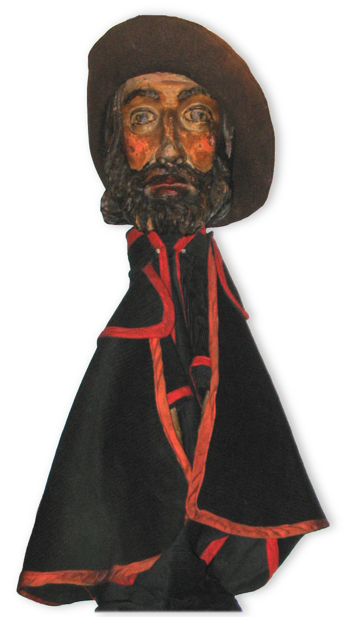 Autore Giorces. Pacì Paciana. Puppet mask remmer italian brigands of XVIII-XIX century